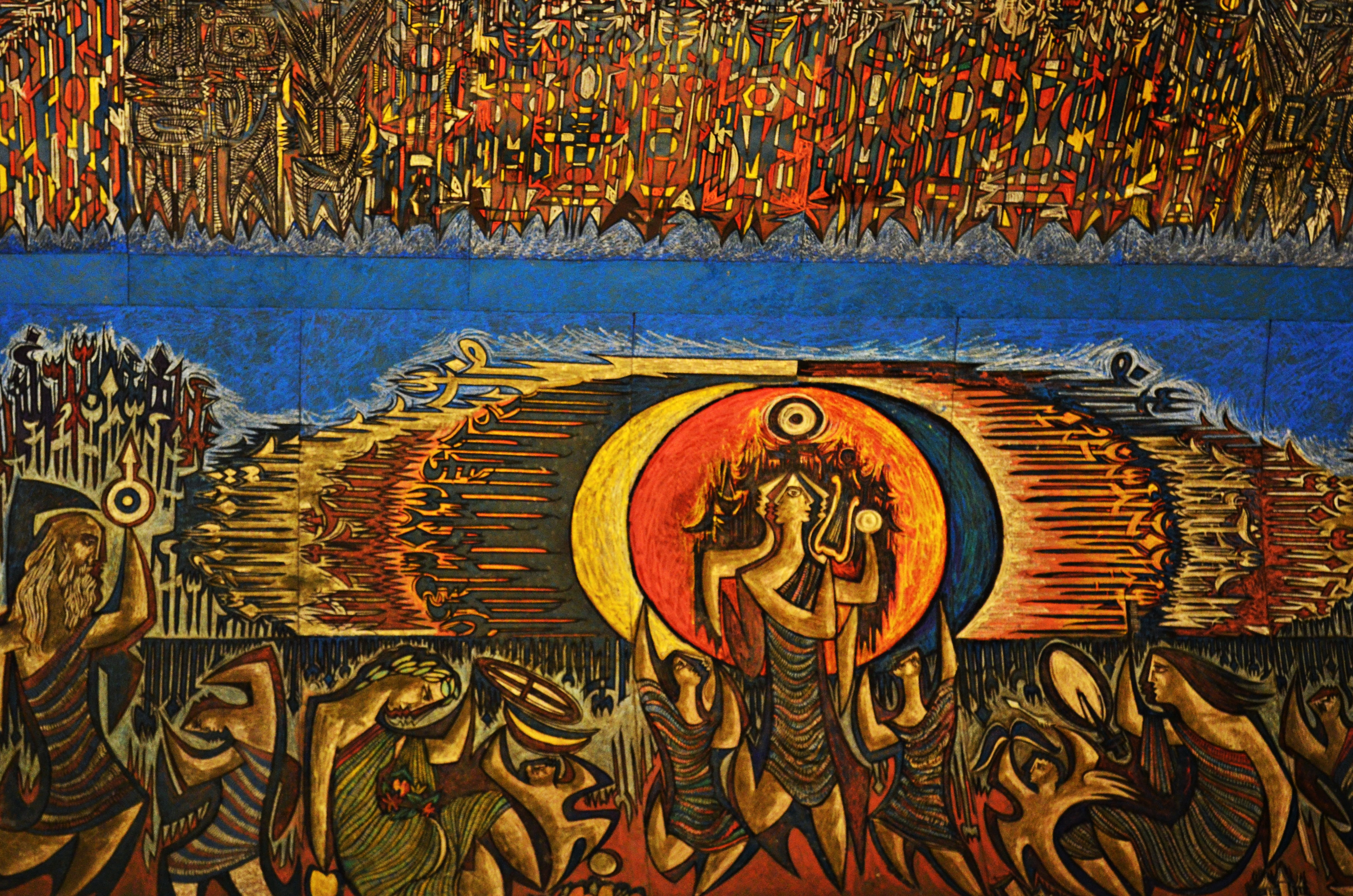 Pakistani Artist Sadequain's mural Arz-o-Samawat at the ceiling of Frere Hall, Karachi, Pakistan. This is a photo of a monument in Pakistan identified as the SD-34